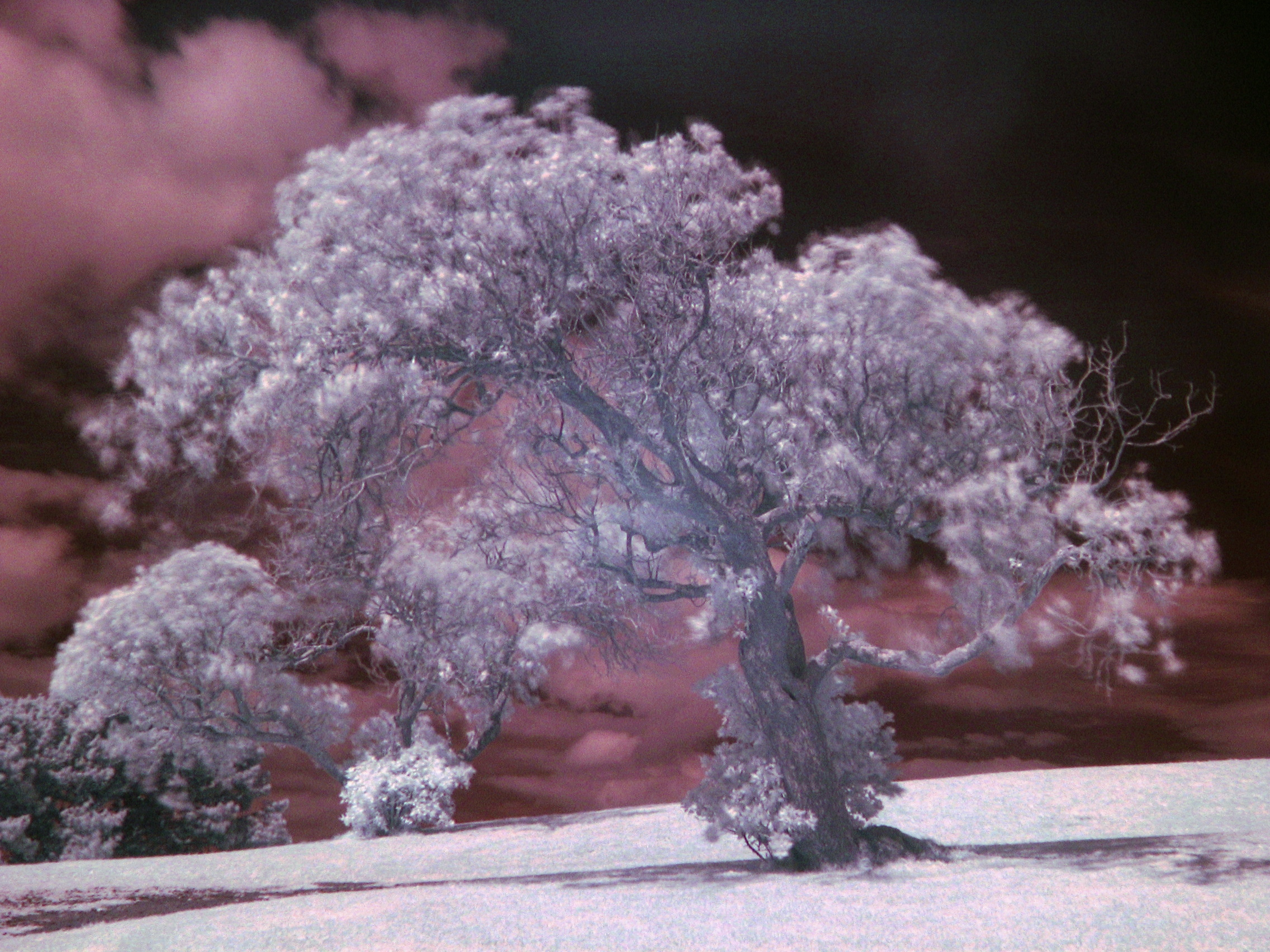 An infrared (IR) photograph of a tree.